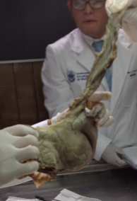 medical students working with a real stomach at Histology practice class